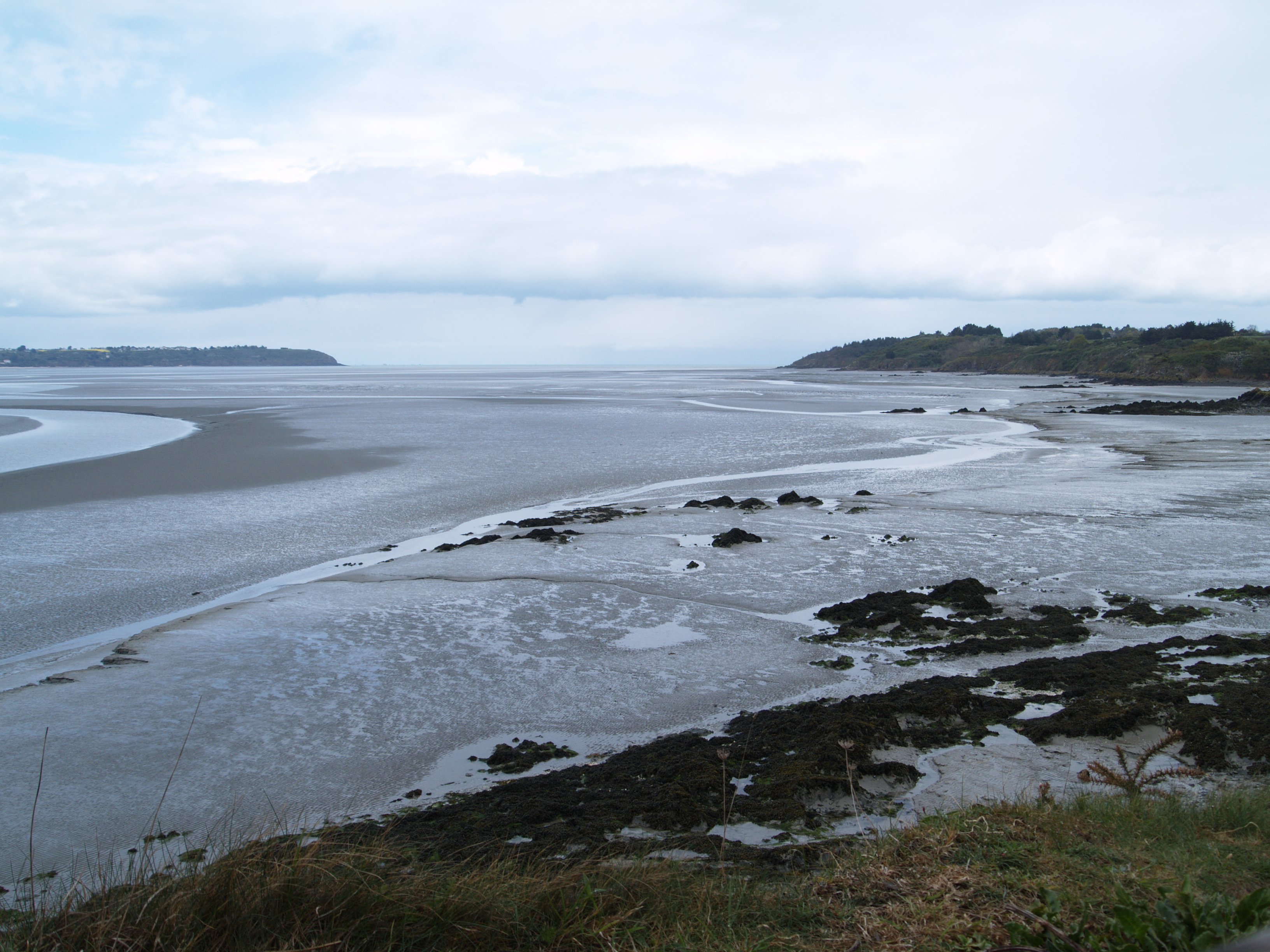 rainy day in saint-brieuc bay, april 2016